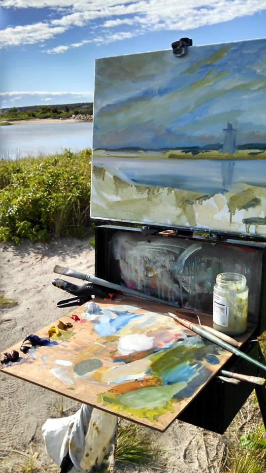 New England 'En plein air' or 'Plein air' Painter, James Reynolds original oil painting of Edgartown Lighthouse, Martha's Vineyard, MA during the initial wash, line and block-in phase of the painting. This oil landscape was painted on the morning of July 5, 2014